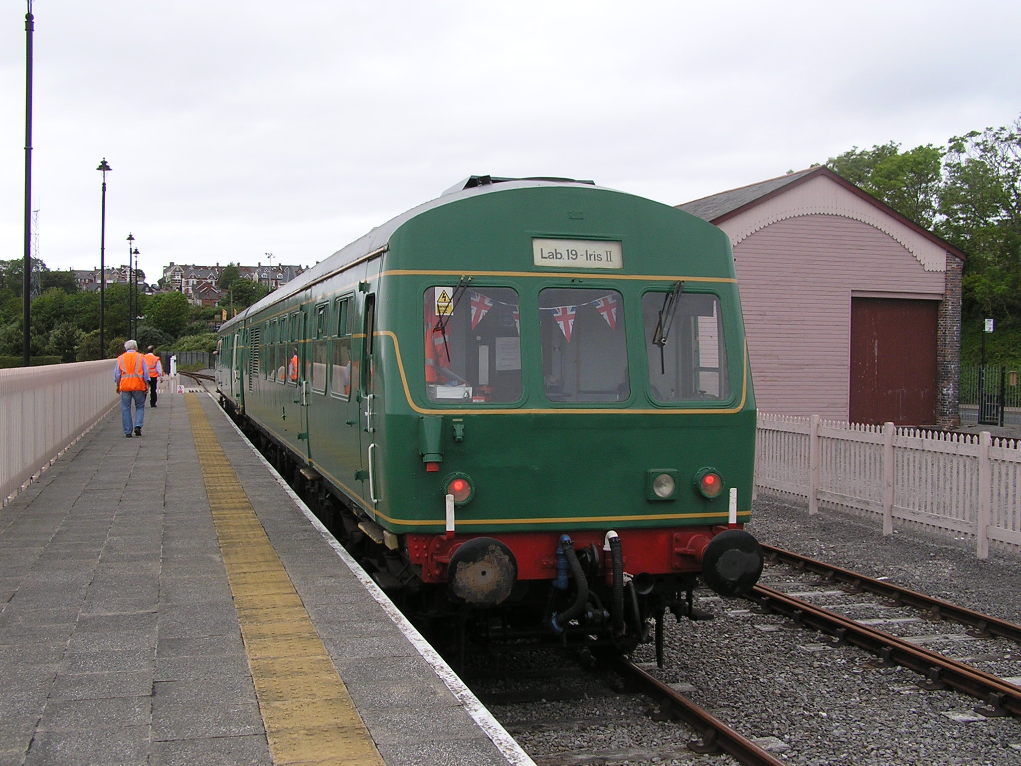 Lab 19 or 'Iris II' was a Class 960 test DMU. Formed of two DMU coaches - 977693 and 977694, which were previously a Class 101 Metro-Cammell built 1957 DMU. 'Iris II' worked for the British Rail Research arm, being based at Derby Railway Technical Centre (RTC). The unit was converted from passenger use in 1991.